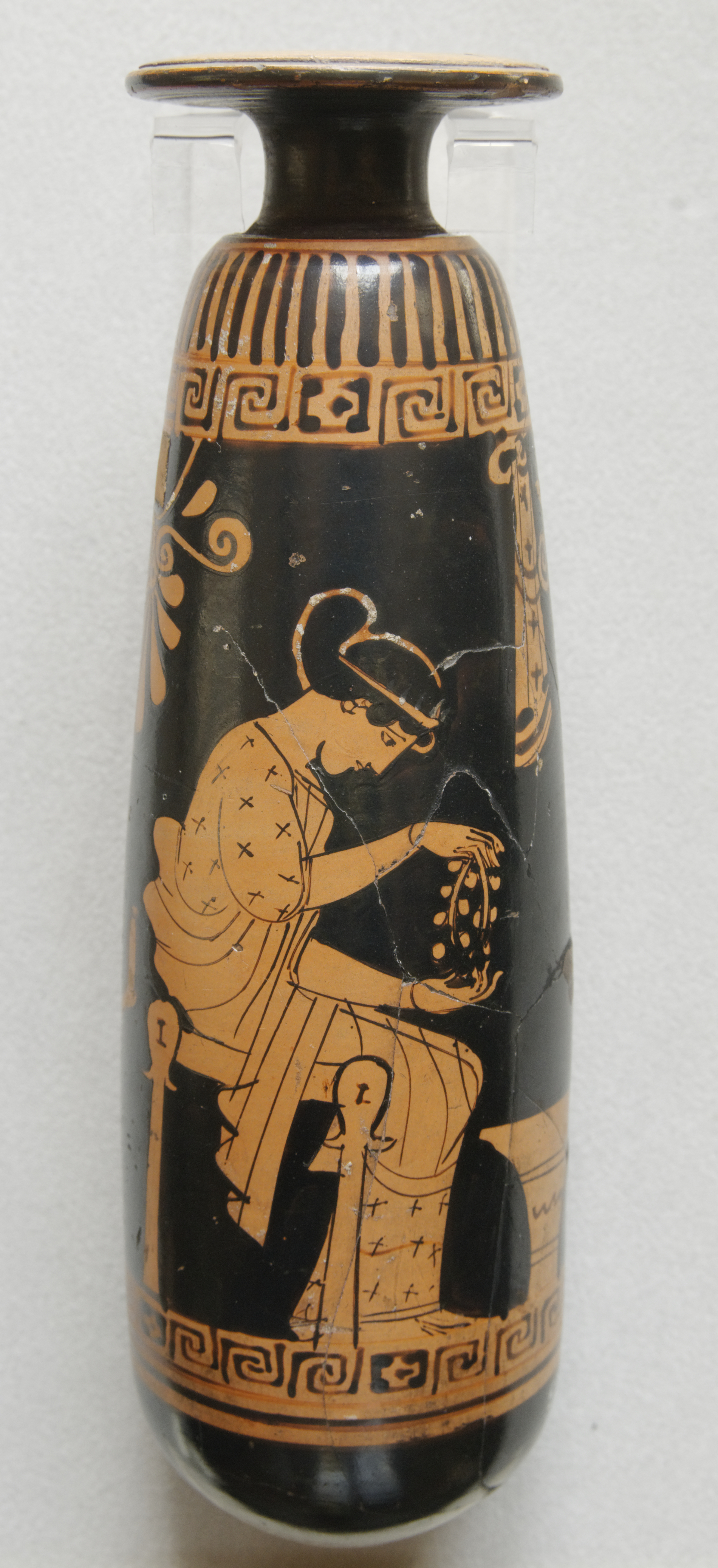 Woman seated to the right with a wreath; a basket on the right. Attic red-figure alabastron, 500–450 BC.